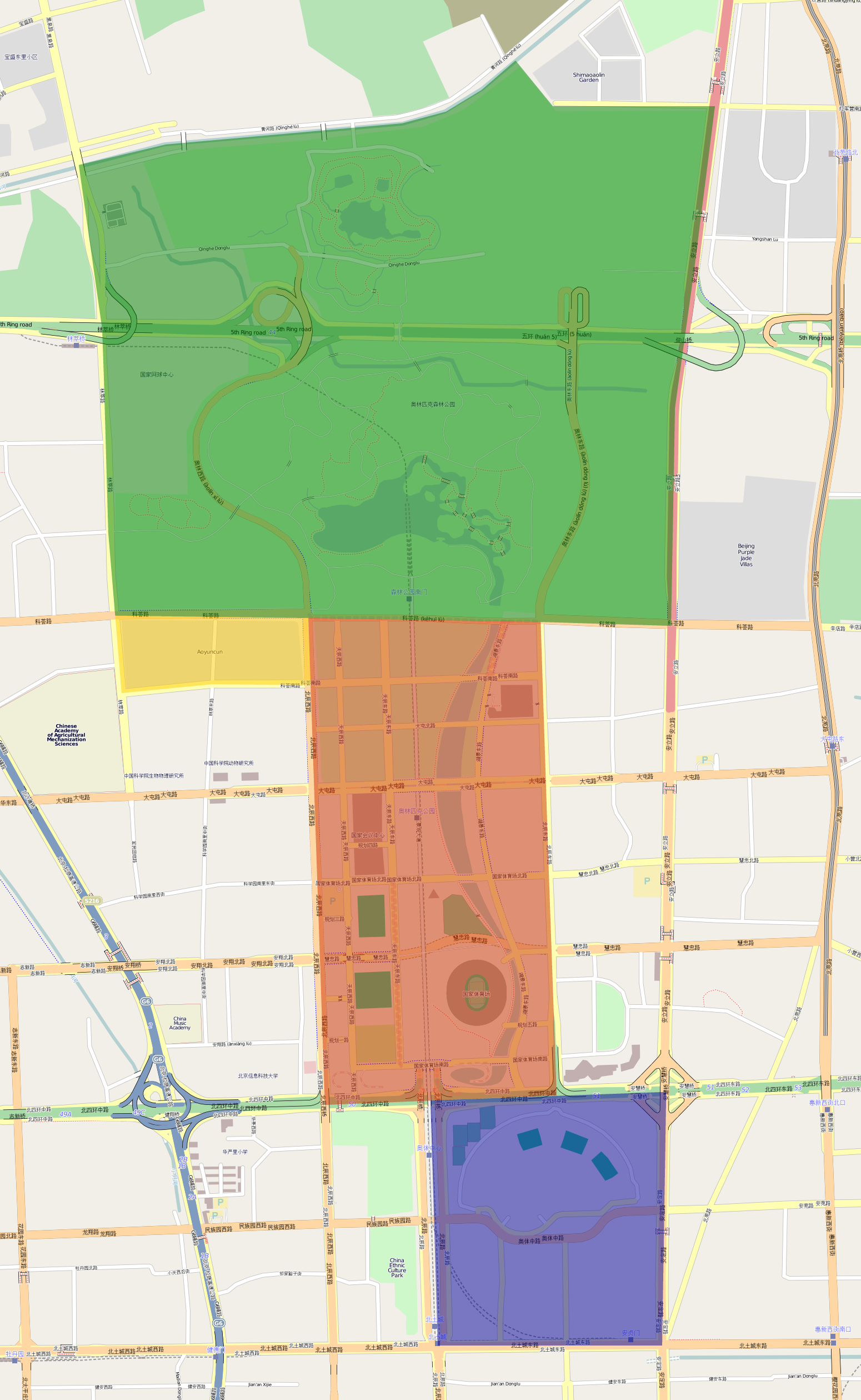 The map of Olympic Green, Beijing, colored by subareas inside. Green - The Olympic Forest Park, Yellow - The Olympic Village, Red - Main part of the Olympic Green, Blue - The National Olympic Sports Center, where located the main stadium of the 1990 Asian Games.